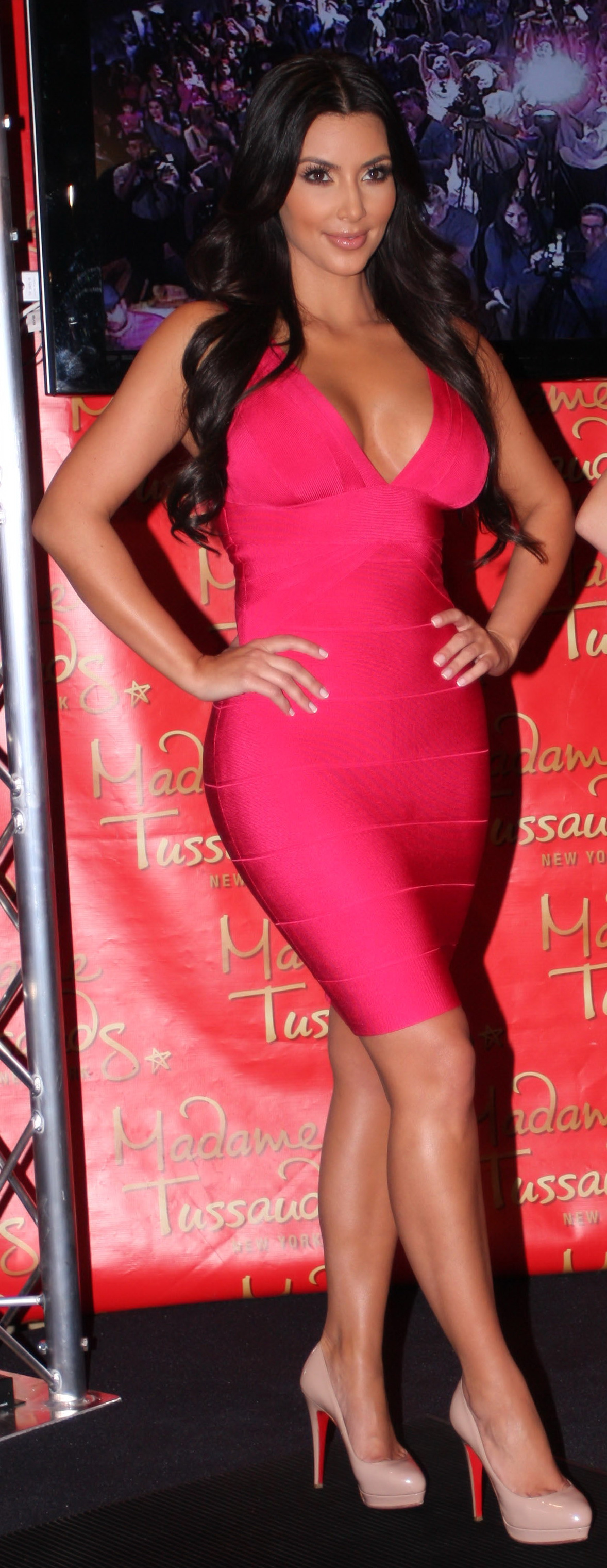 Kim Kardashian, taken at the unveiling of her Madame Tussaud's wax figure. (You can see the figure's elbow at the far right)